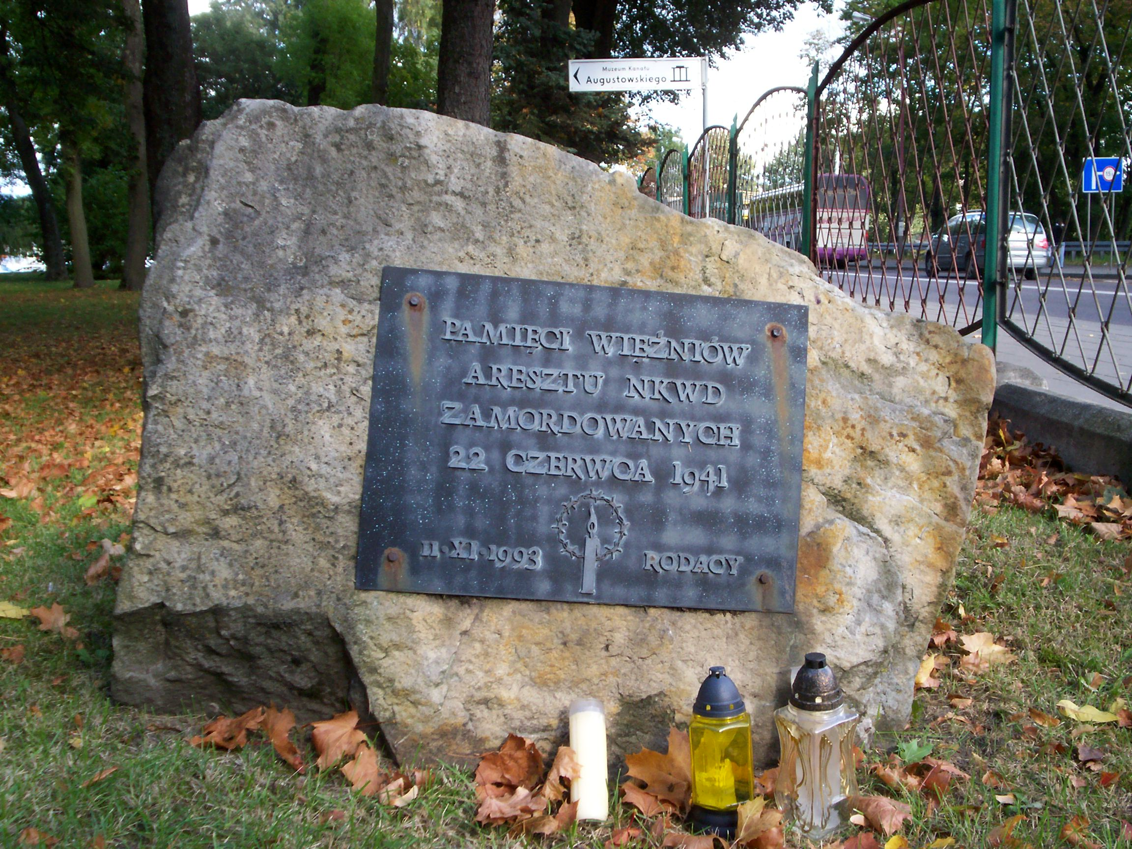 Memorial stone in Augustów.